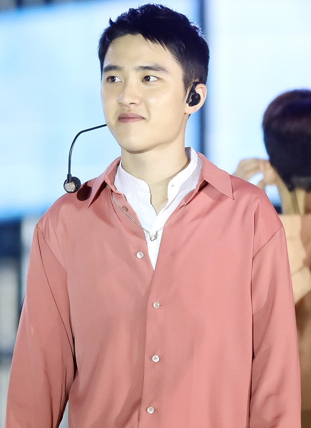 D.O. at Lotte Family Festival on October 22, 2016.